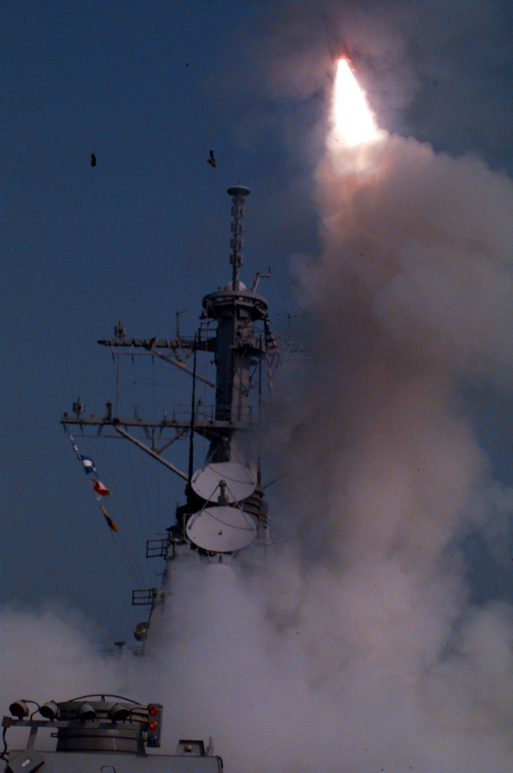 One of eight Tomahawk cruise missiles launches from the bow of the USS Laboon (DDG-58) Arleigh Burke class destroyer to attack selected air defense targets in Iraq on Sept. 3, 1996. The U.S. Navy Arliegh Burke class destroyer launched the missiles at 7: 15 a.m. local time as it operated in the Persian Gulf.